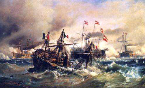 Lissa naval battle, July 20th,1866; the Austrian navy against the Italian fleet. The RN Re d'Italia is sinking after being rammed by Tegetthoff's flagship, the SMS Ferdinand Max.